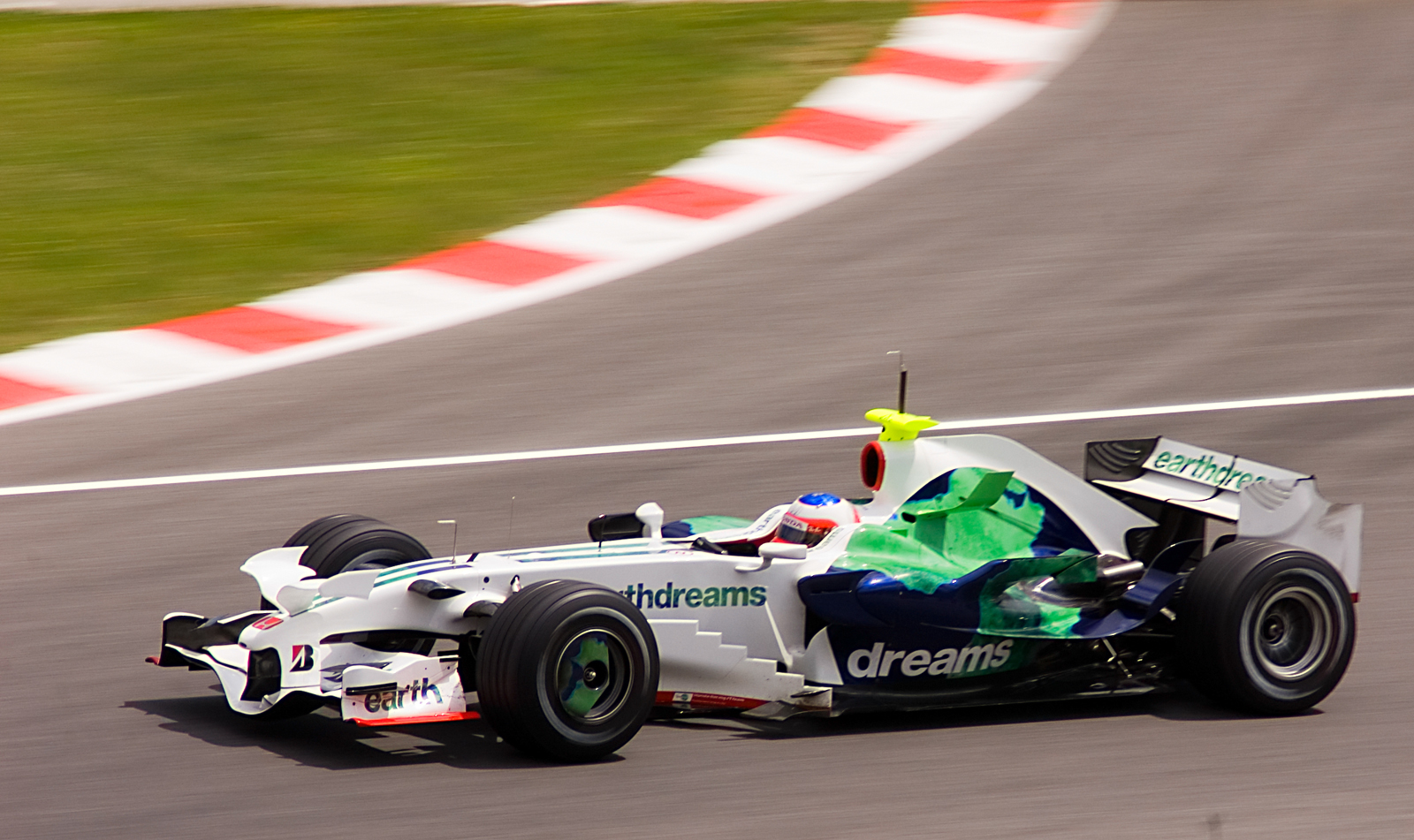 Rubens Barrichello testing for Honda F1 at the Circuit de Catalunya in June 2008.